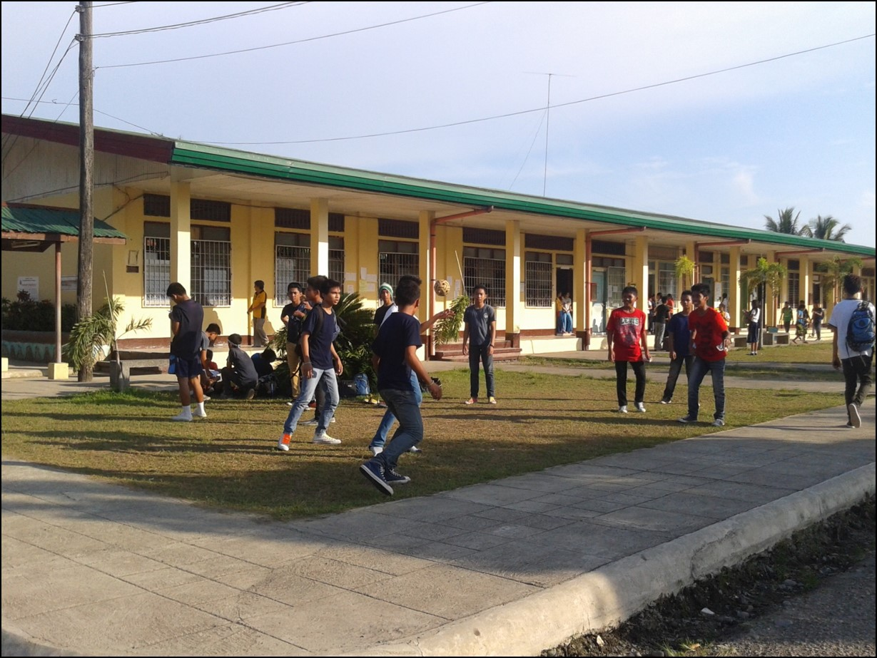 TNTS ground and viewing the Tech-Voc Building